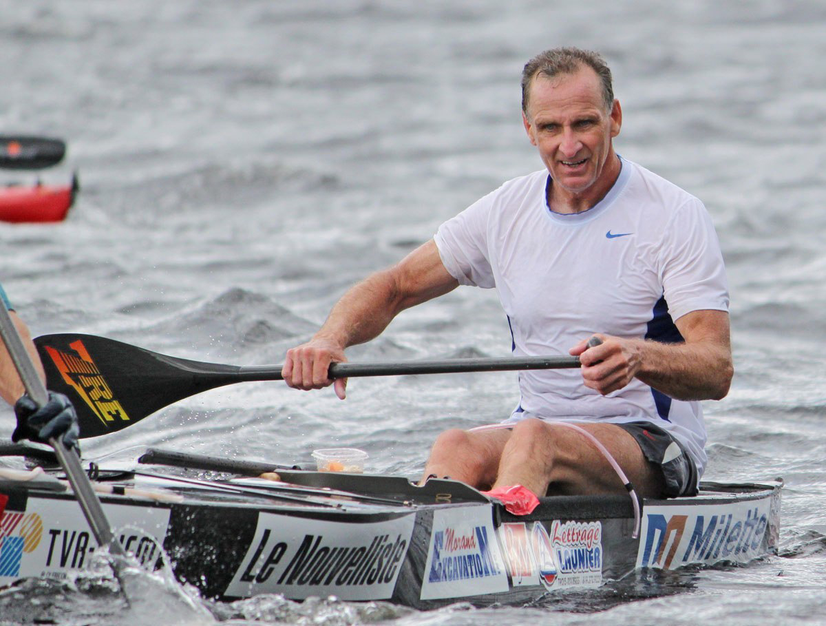 Serge Corbin, of St. Boniface, Quebec. Considered by many to be the Greatest Marathon Canoe Racer of All-Time, Arguably one of the Greatest Athletes of All Time. Corbin absolutely dominated the sport of marathon canoe racing for over three decades an through 1980's,1990's & 2000's